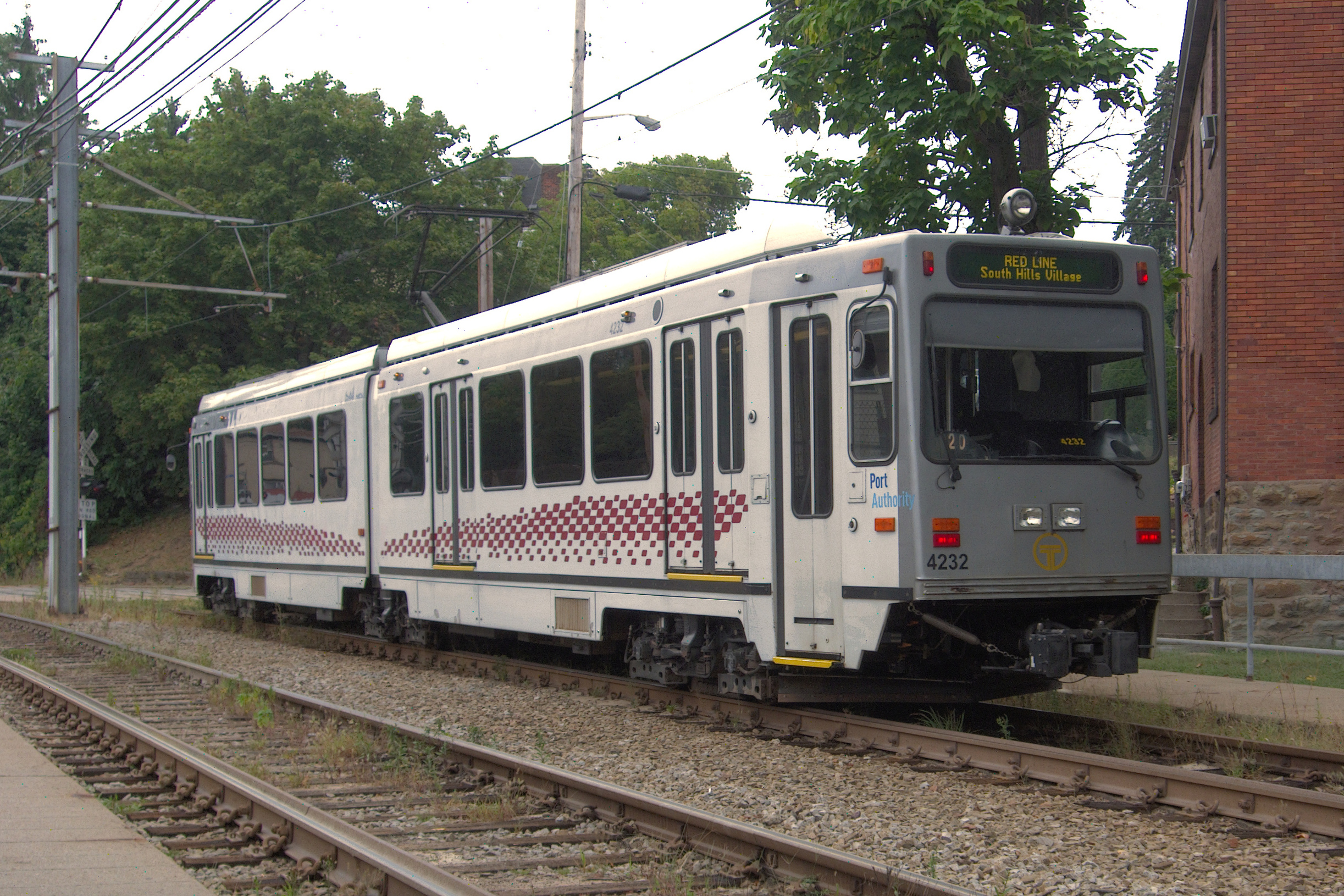 A southbound 4200-series Red Line car at the Westfield stop